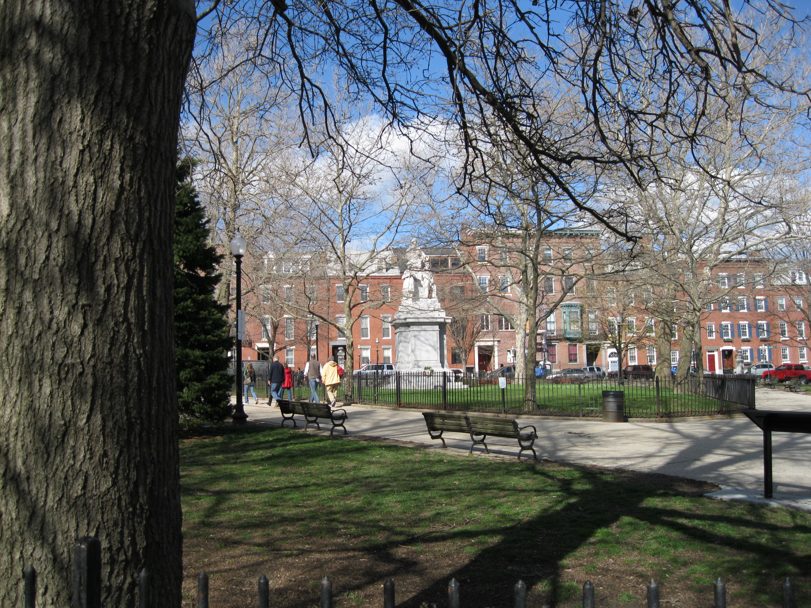 Winthrop St and Adams St, Charlestown MA 02129